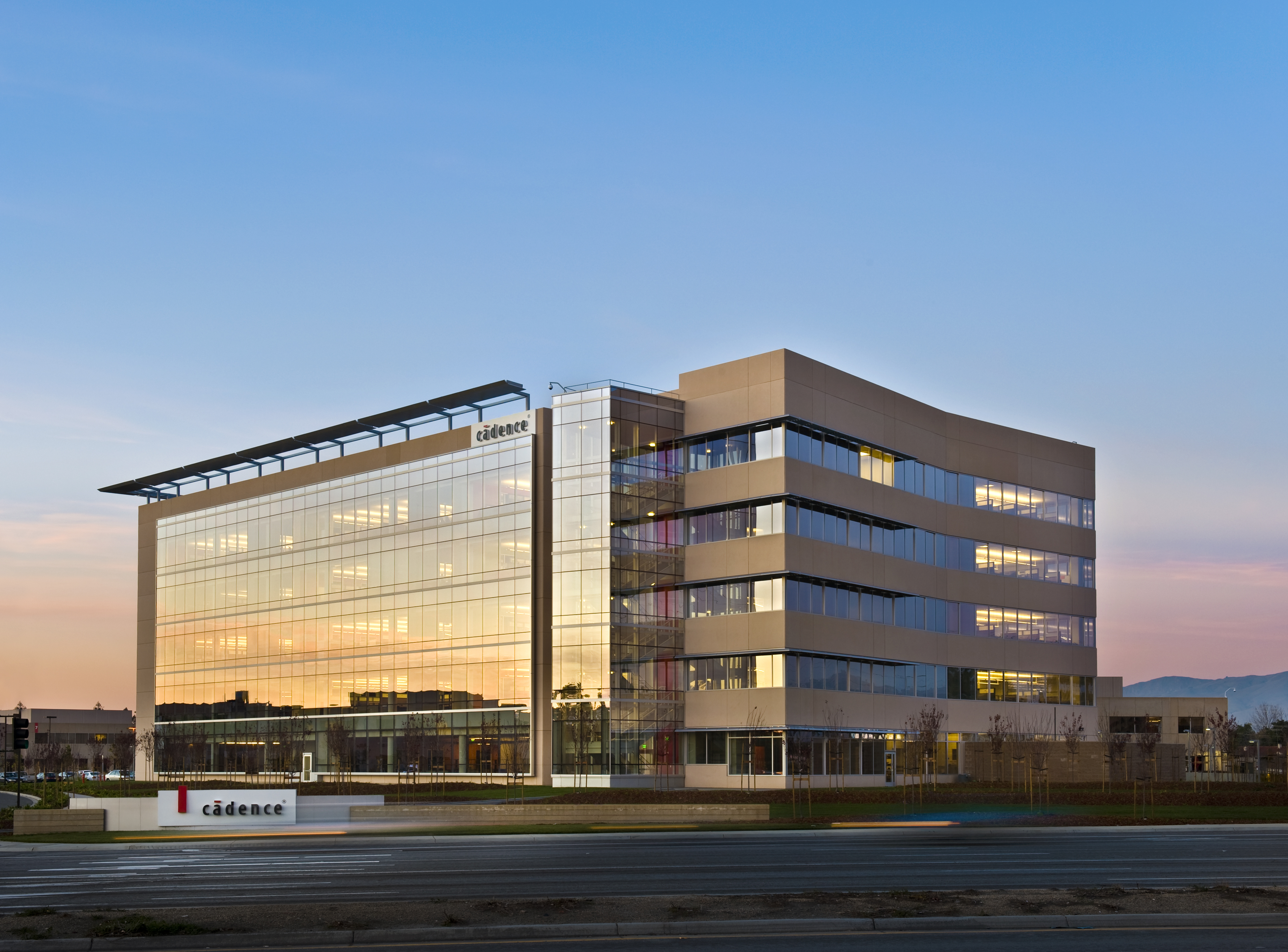 The Cadence Research and Development Center opened on February 9, 2009 (Author: Cadence, Source: Cadence, Cadence corporate provided email confirmation that I could upload this image under this license which I will forward shortly to )